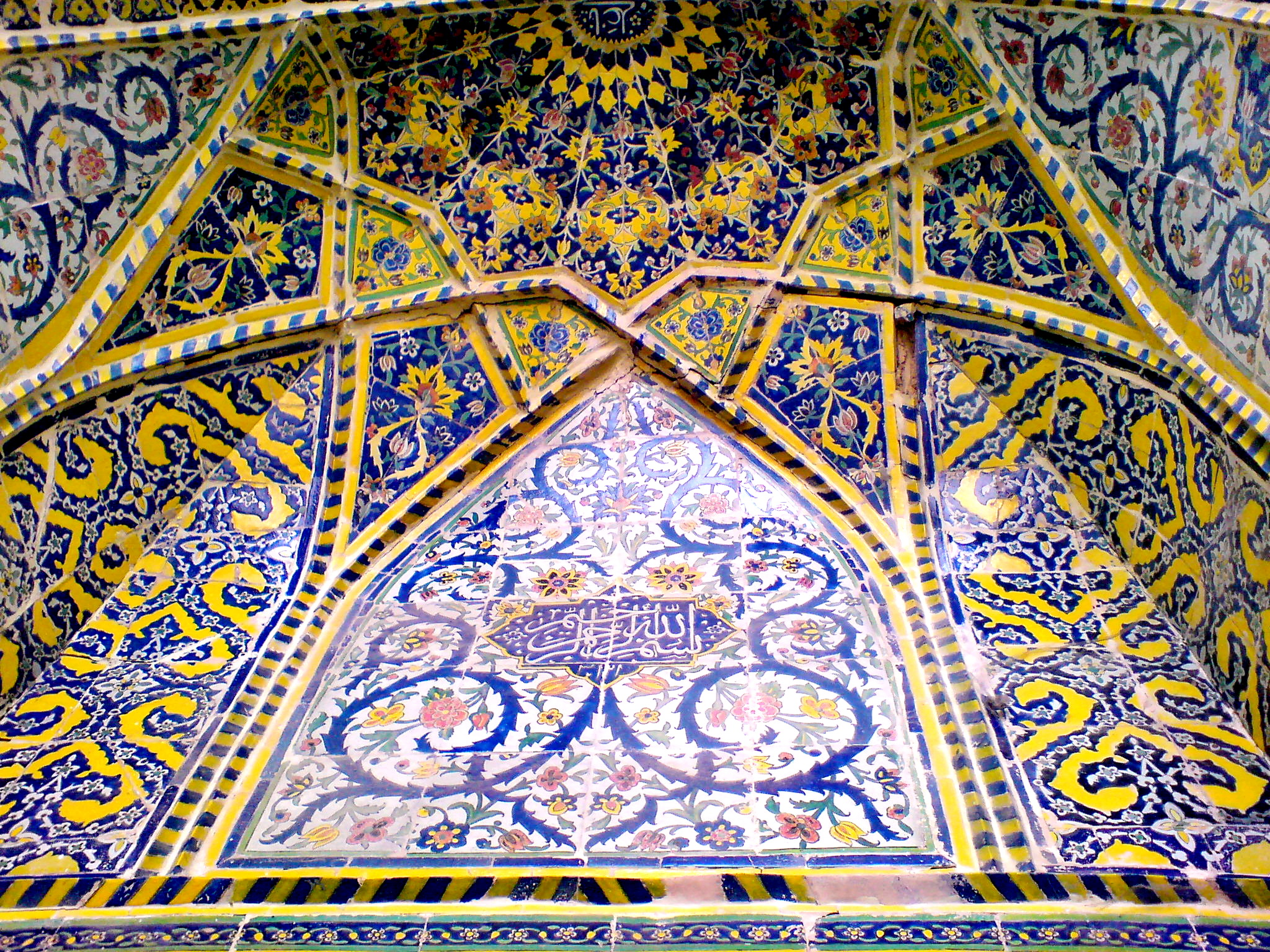 Mihrab of Kashmar Jame Mosque.